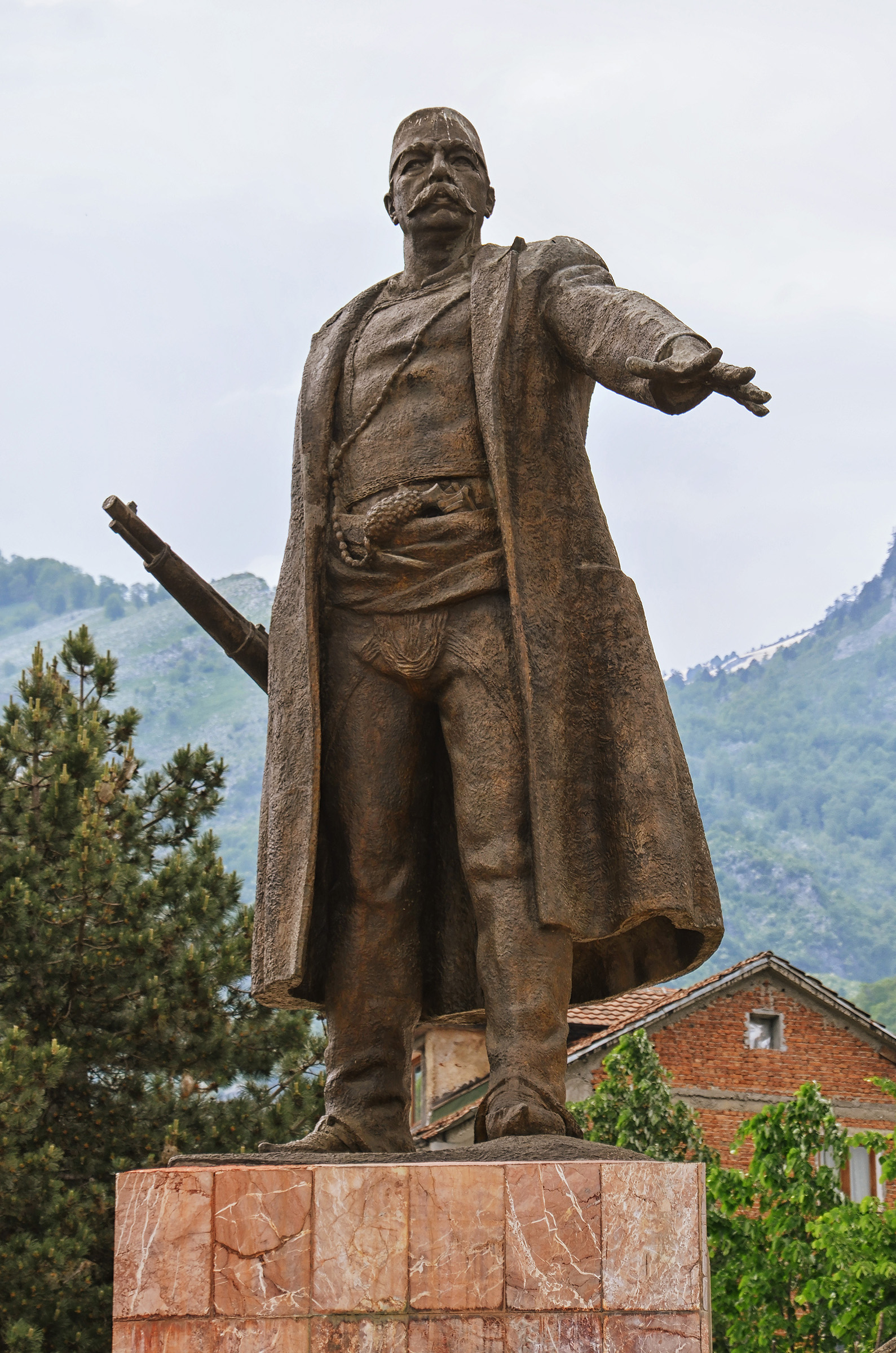 The Bajram Curri Monument in the town of Bajram Curr, Tropojë, Albania